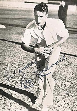 Picture of former Australian cricketer Ray Lindwall at practice during the early 1950s. The image is pre-1955 and is therefore in the public domain. This image is of Australian origin and is now in the public domain because its term of copyright has expired. According to the Australian Copyright Council (ACC), ACC Information Sheet G023v17 (Duration of copyright) (August 2014).3 Type of materialCopyright has expired if … A Photographs or other works published anonymously, under a pseudonym or the creator is unknown: taken or published prior to 1 January 1955BPhotographs (except A): taken prior to 1 January 1955CArtistic works (except A & B): the creator died before 1 January 1955DPublished editions1 (except A & B): first published more than 25 years agoECommonwealth, State or Territory owned2 photographs and engravings: taken or published more than 50 years ago 1 means the typographical arrangement and layout of a published work. eg. newsprint. 2 owned means where a government is the copyright owner as well as would have owned copyright but reached some other agreement with the creator. 3 Copyright Amendment (Disability Access and Other Measures) Bill 2017 (Australian Government) When using this template, please provide information of where the image was first published and who created it.